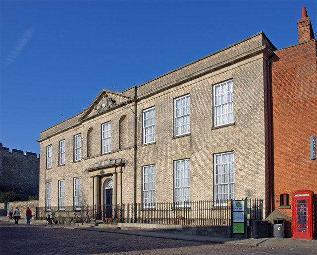 The Judges' Lodging House, Castle Hill, Lincoln This Grade II listed building of Georgian origin is currently being offered for sale by informal tender by Harrison's of Lincoln: "The disposal of this exceptional Grade II listed Georgian building with later extensions at the rear affords a unique opportunity to acquire one of Lincoln's truly magnificent landmark buildings."